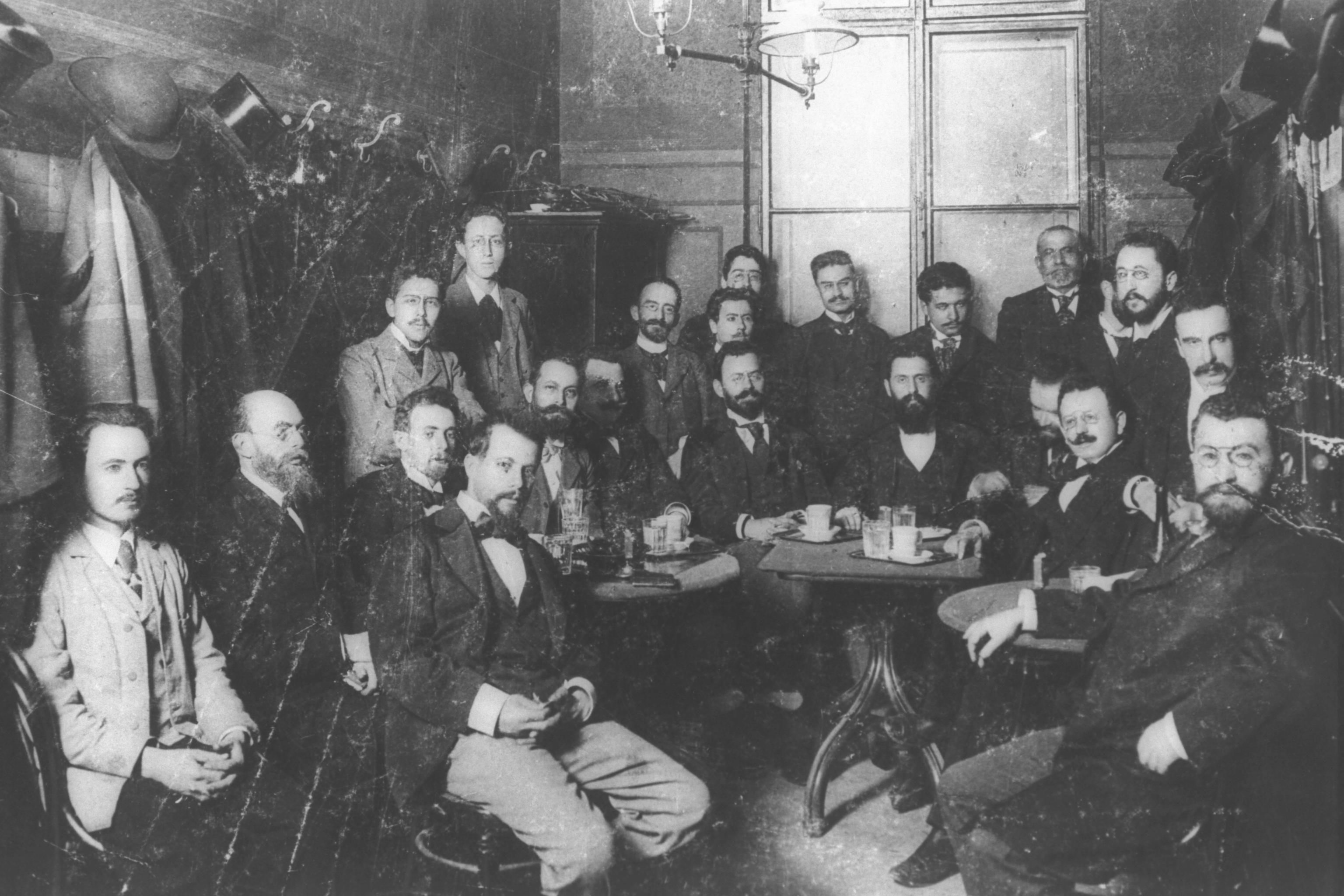 THEODOR HERZL (SEATED AT CENTER OF TABLE) WITH MEMBERS OF THE ZION ORGANIZATION IN THE LUBER CAFE IN VIENNA, 1896. תאודור הרצל עם חברי אגודת ציון בקפה לובר בווינה. 1896